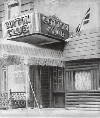 Cotton Club, New York City, 1930